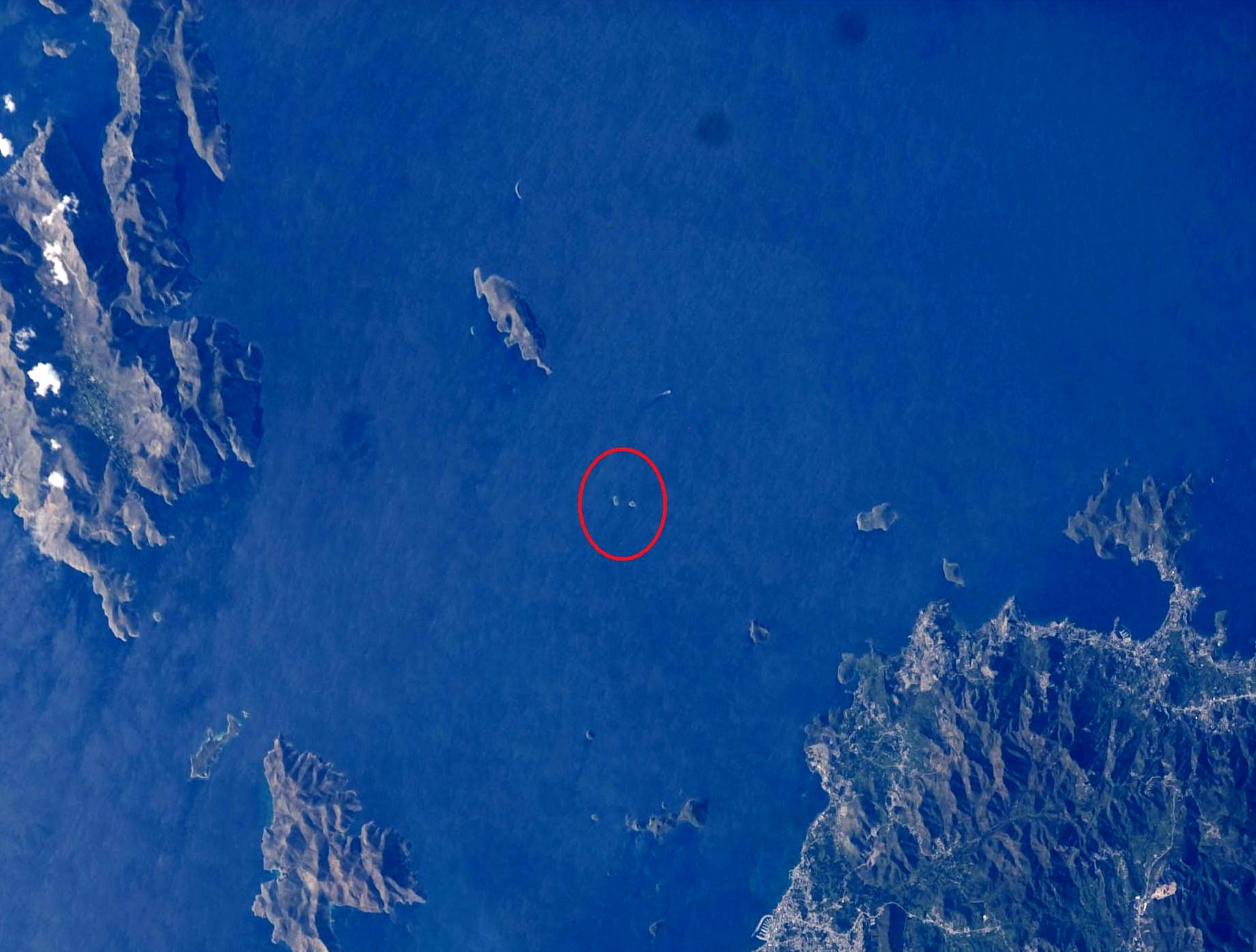 Location of the Imia islets in the Aegean Sea.